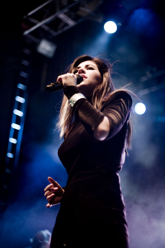 Welsh pop singer Marina and the Diamonds on stage at the HMV Picture House, Edinburgh, Scotland, on 2 November 2010